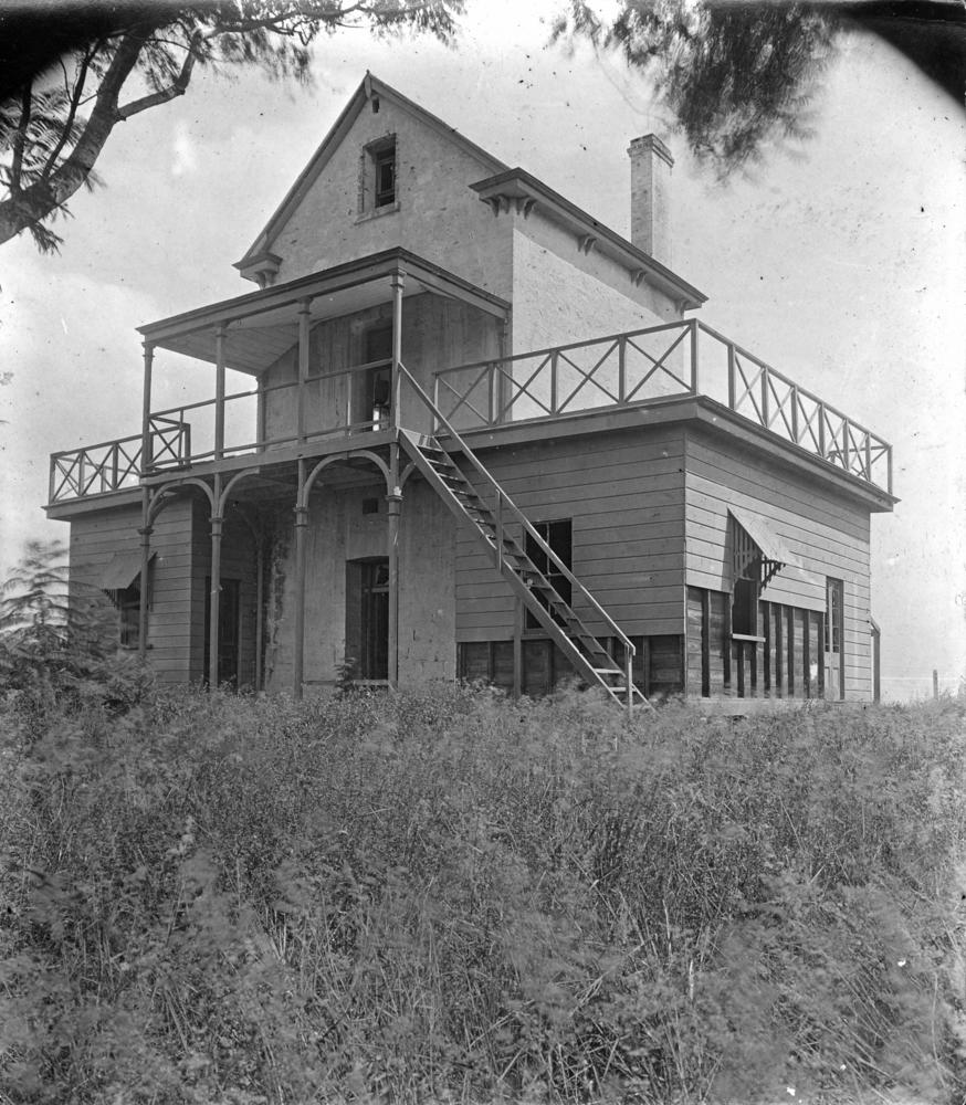 Bartley's Folly in Hamilton, Brisbane, ca. 1914 Home built by Nehemiah Bartley in early 1860. Reservoir at Hamilton has taken the position on the top of the hill. (Description supplied with photograph.).